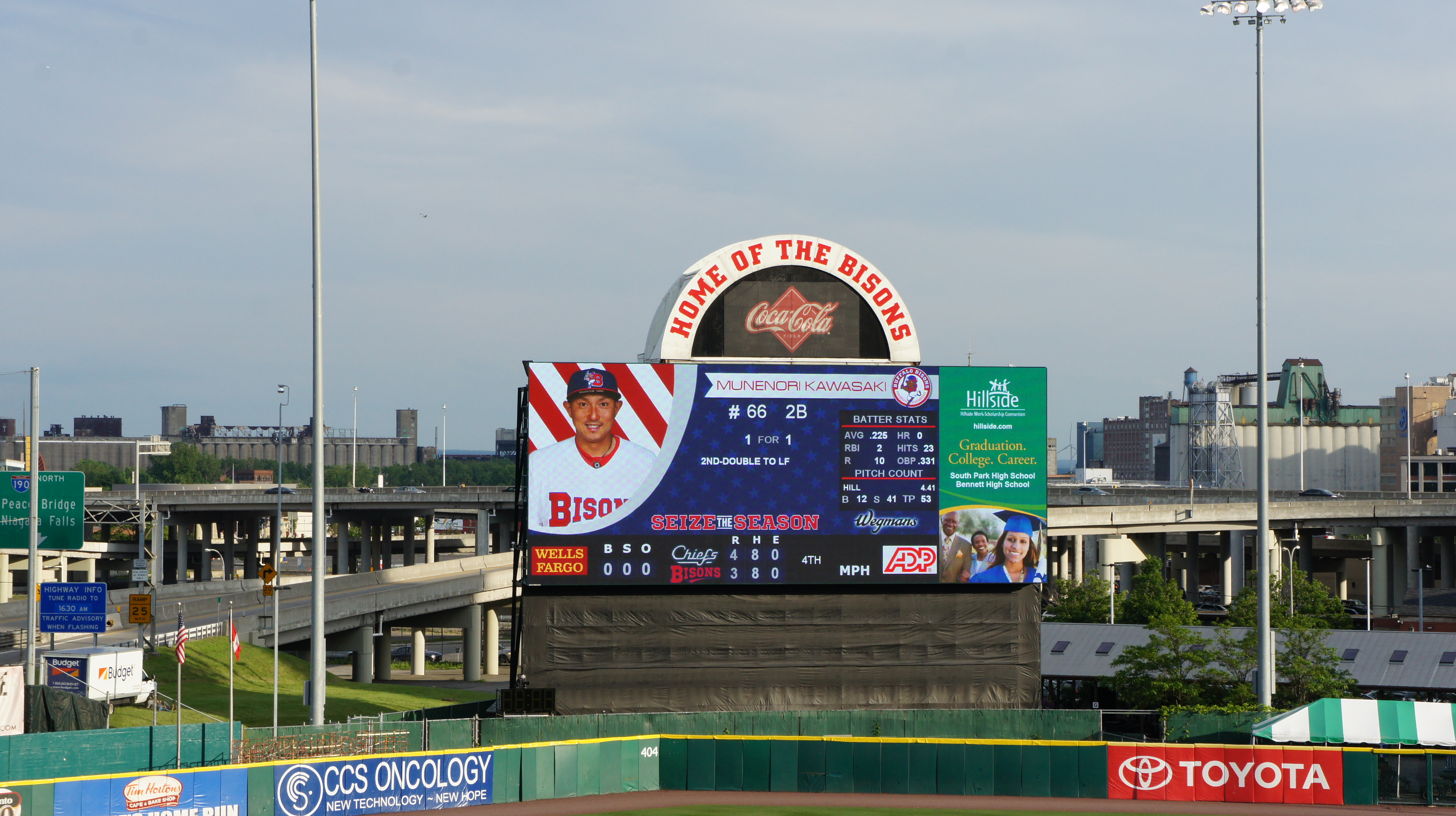 Coca-Cola Field HD Scoreboard In Buffalo, NY